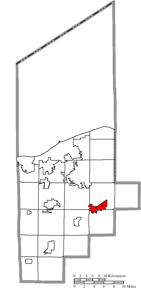 Map of the municipal and township boundaries of Lorain County, Ohio, United States, as of the 2000 census, with the location of the village of Grafton highlighted. Township borders are shown only in unincorporated areas in order to differentiate incorporated and unincorporated areas more clearly.